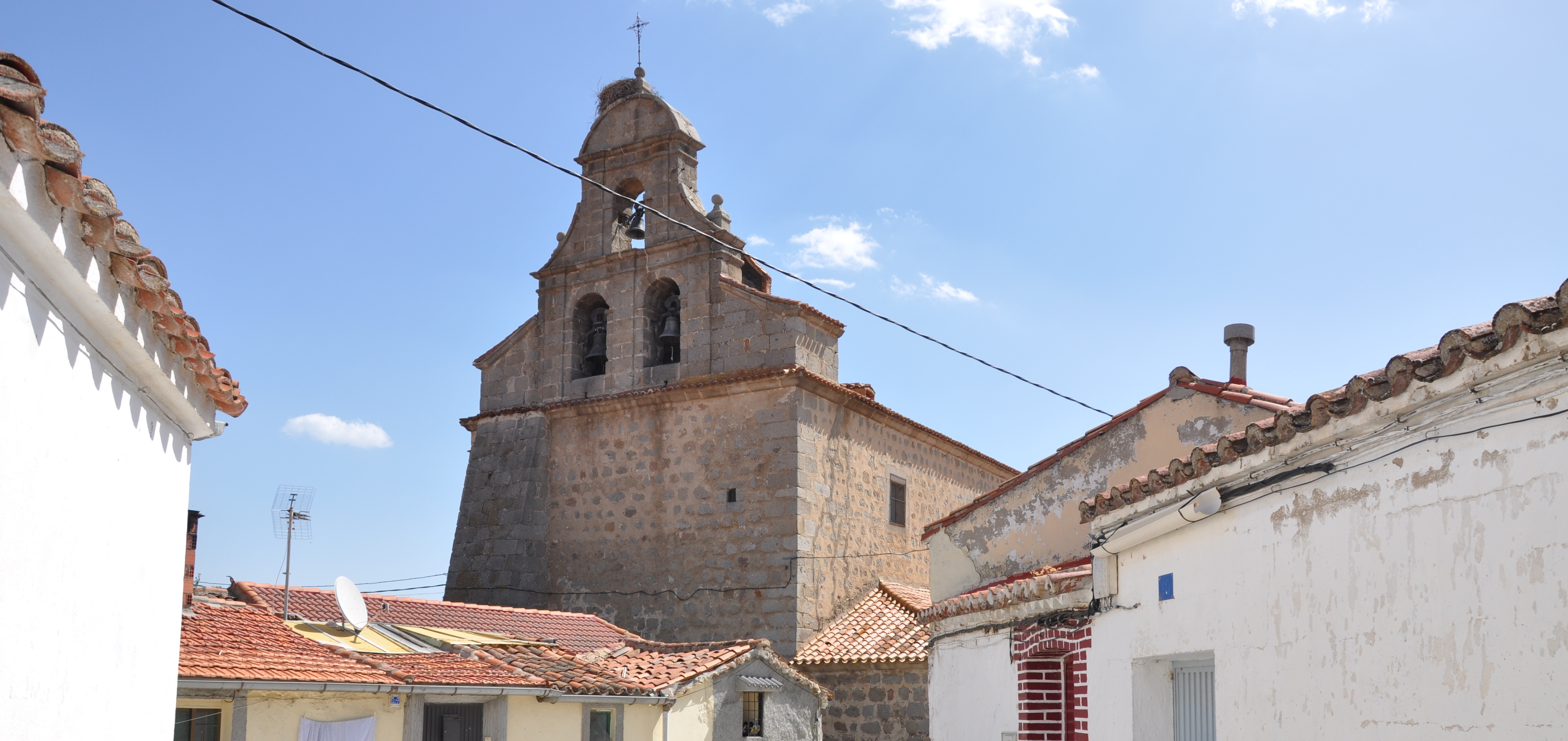 Steeple of the church of Padiernos, Avila, Spain